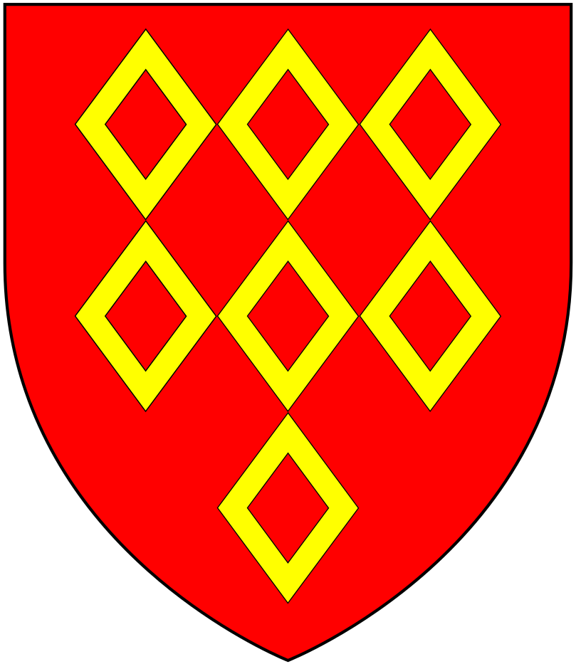 Arms of De Quincy: Gules, seven mascles or 3,3,1. Ferrers of Groby, heir of De Quincy, later adopted these arms